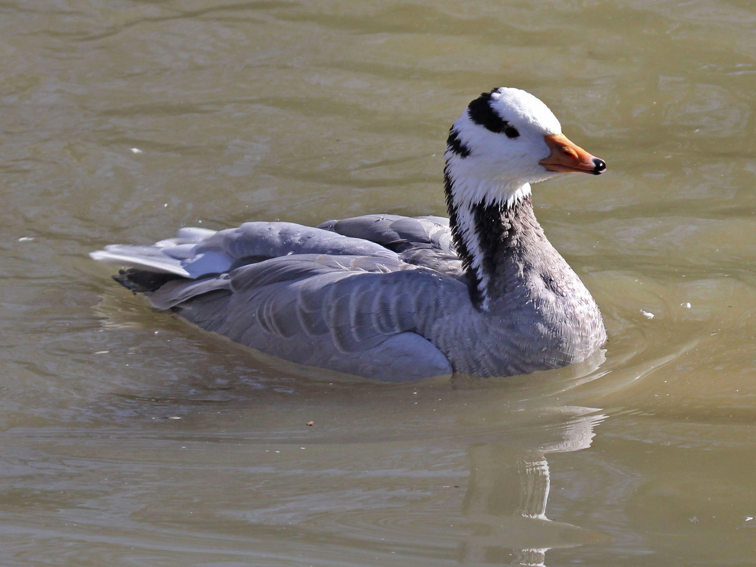 Bar-headed Goose (Anser indicus) - Sylvan Heights Waterfowl Park, Scotland Neck, North Carolina